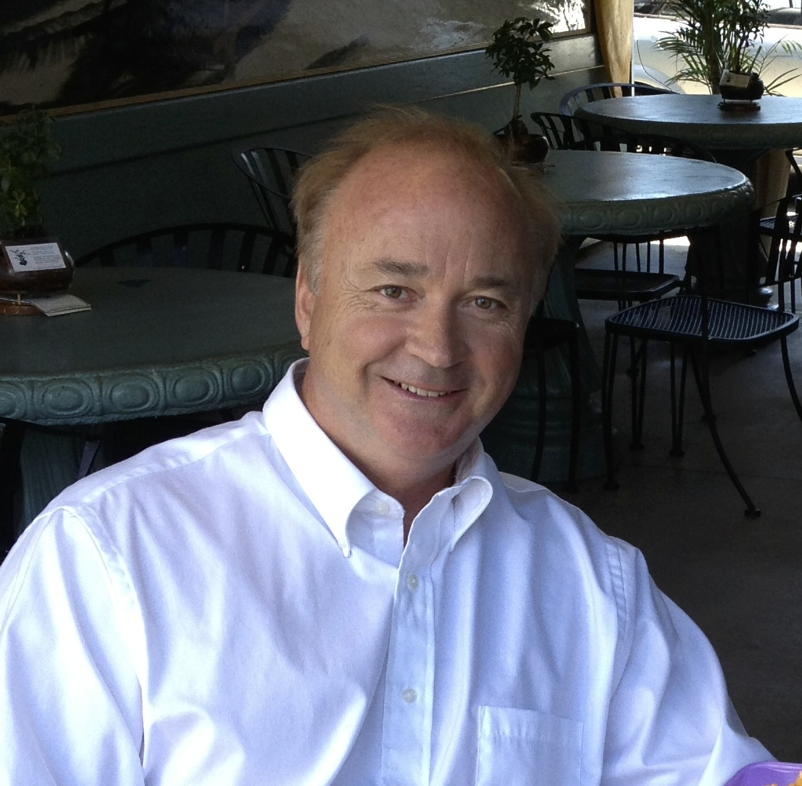 Former Utah Representative Kevin Garn in 2013.